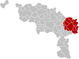 Map of Charleroi District in province of Hainaut, Belgium.